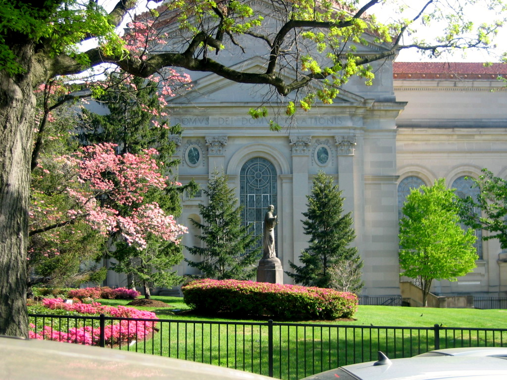 Garden of SS. Philip and James Roman Catholic Church in Baltimore, Maryland, USA.